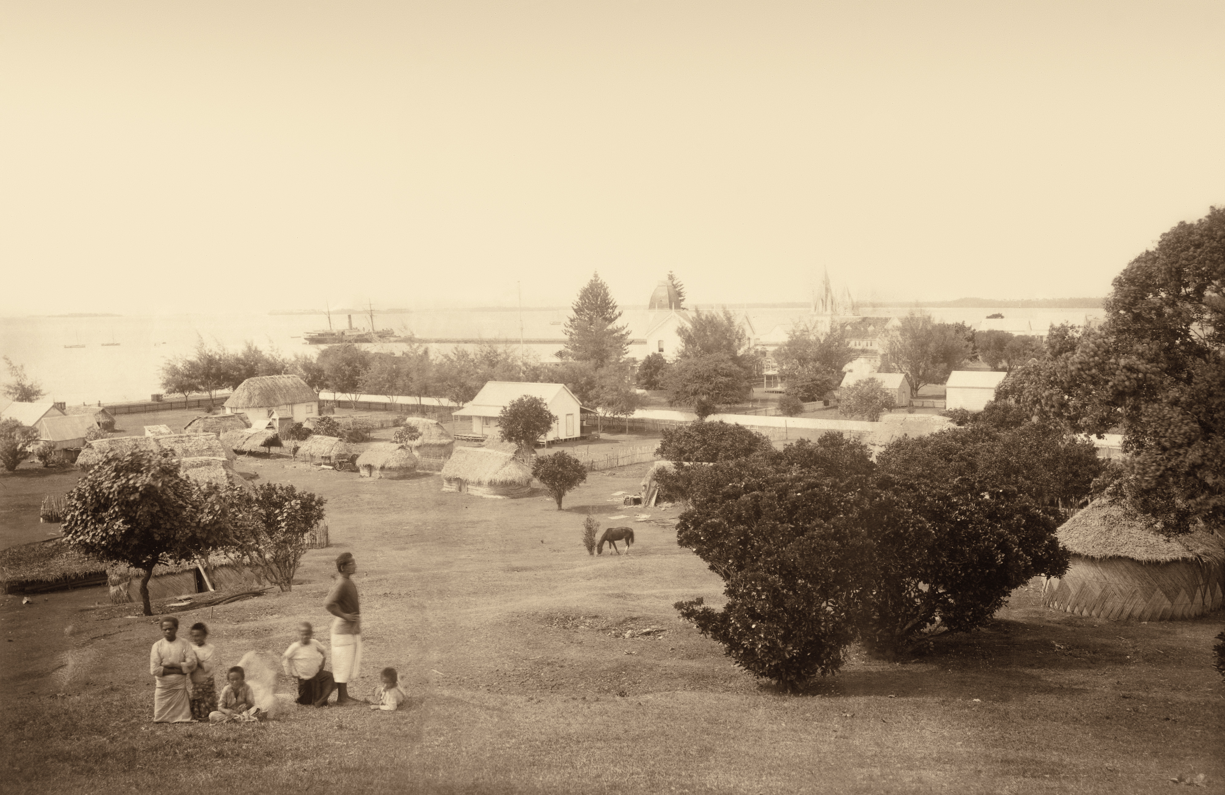 This photograph was taken by Auckland photographer George Dobson Valentine, and sent to the Patent and Copyright Office for trademarking. It was stored folded in an envelope (hence the fold marks). Archives Reference: PC4 Box 2/ 87/48 Material from Archives New Zealand